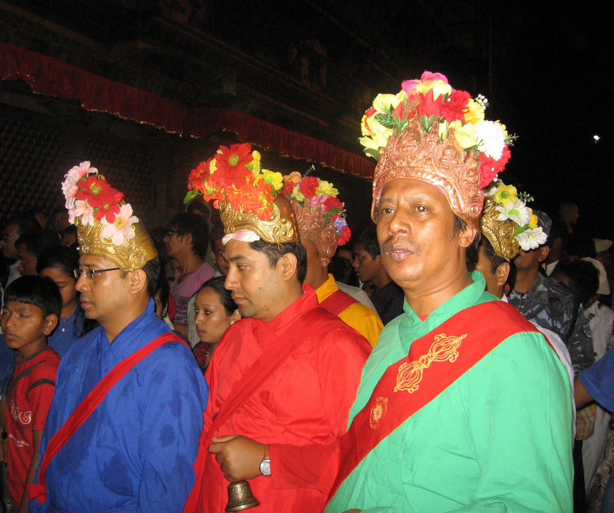 Five Bajracharyas (Newar Buddhist priests) representing the Pancha Buddha (Five Buddhas) accompany the chariot procession of Kumari during Yenya.